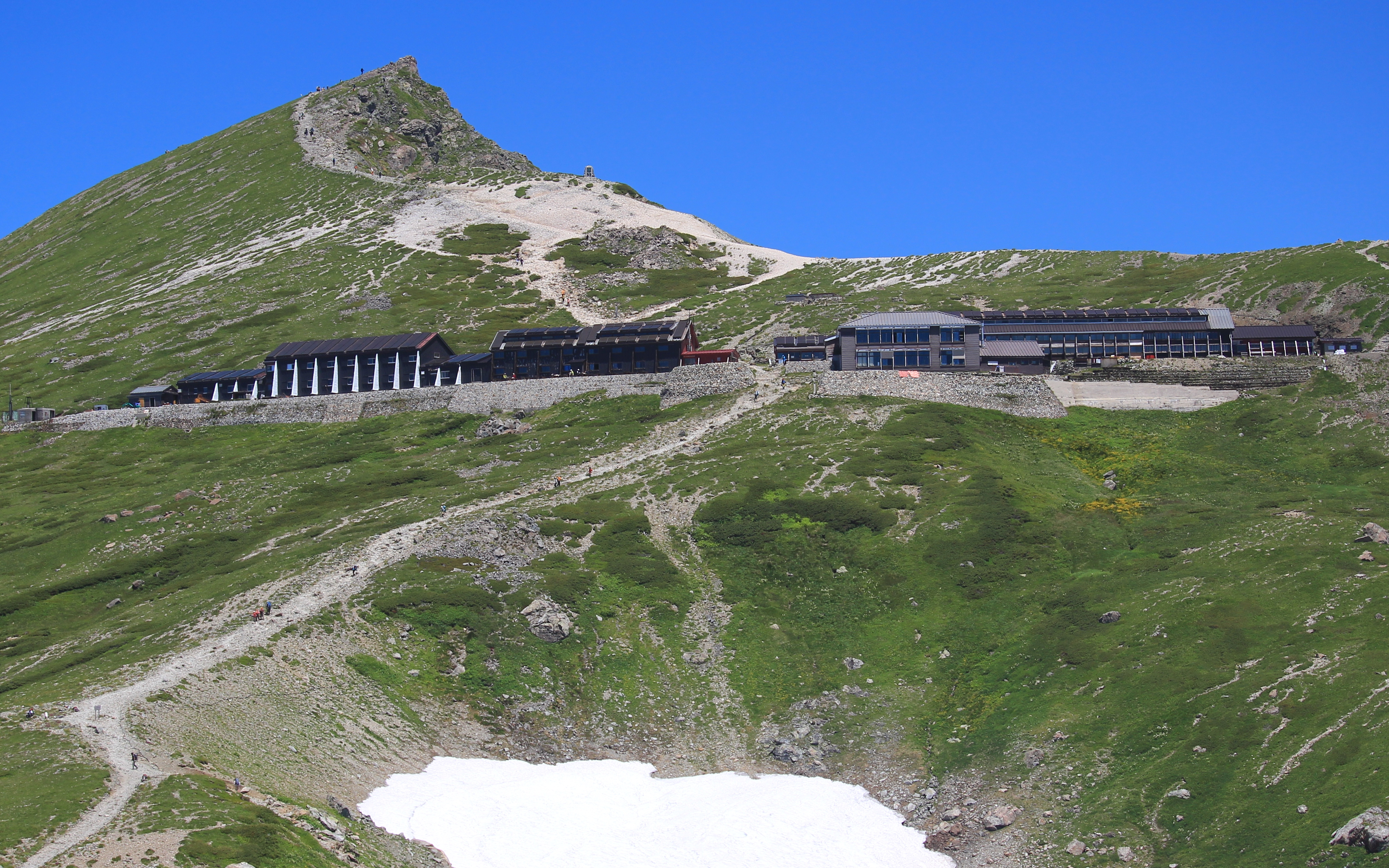 Hakuba Sanso seen from Mount Maru, in Mount Shirouma, Hakuba, Nagano prefecture, Japan.